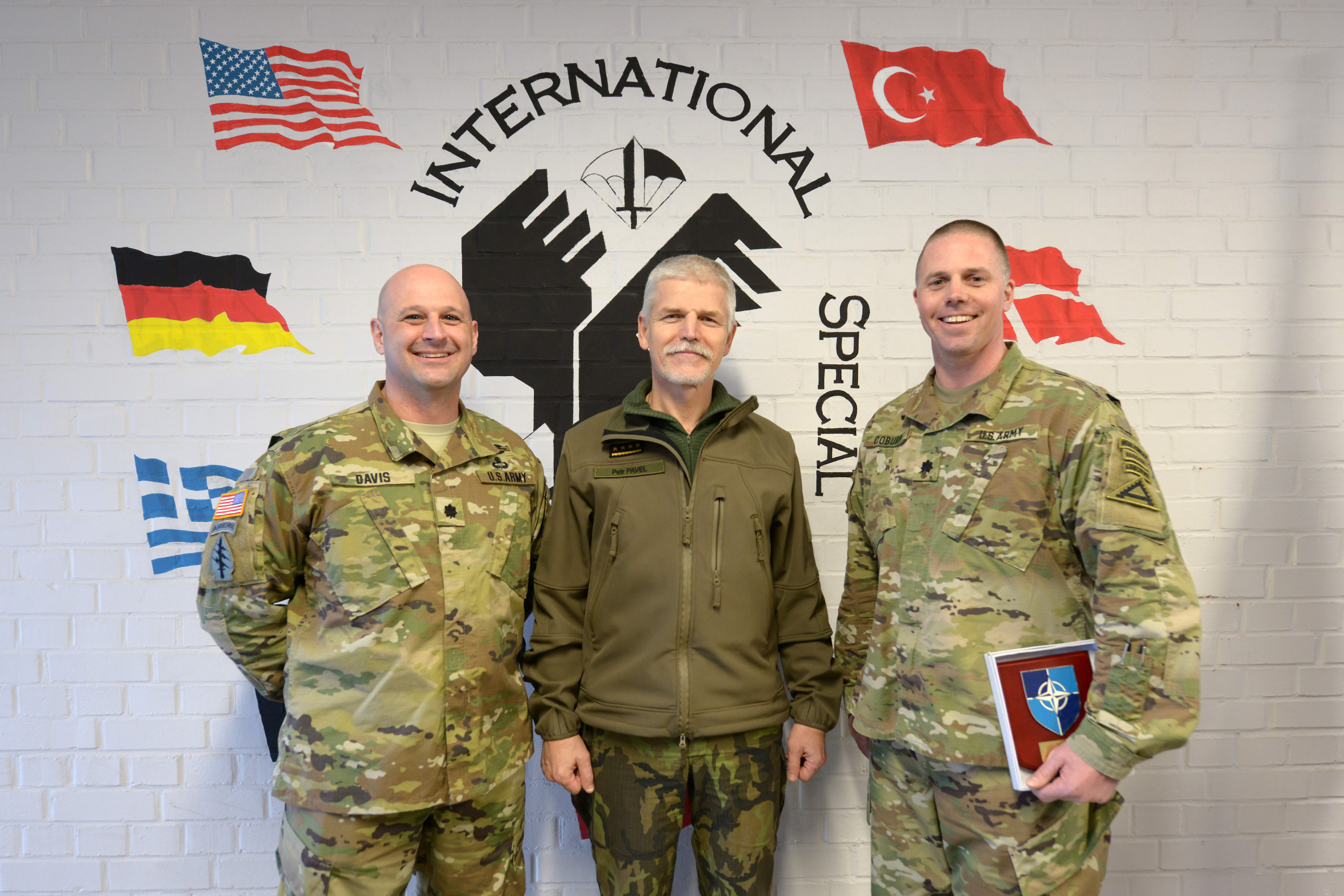 Czech Republic Army Gen. Petr Pavel, chairman of the NATO Military Committee is hosted by the staff of the International Special Training Centre for a tour of the multinational training facility located on Staufer Kaserne, Pfullendorf, Germany, Feb. 25, 2016. (U.S. Army photo by Visual Information Specialist Jason Johnston/Released)